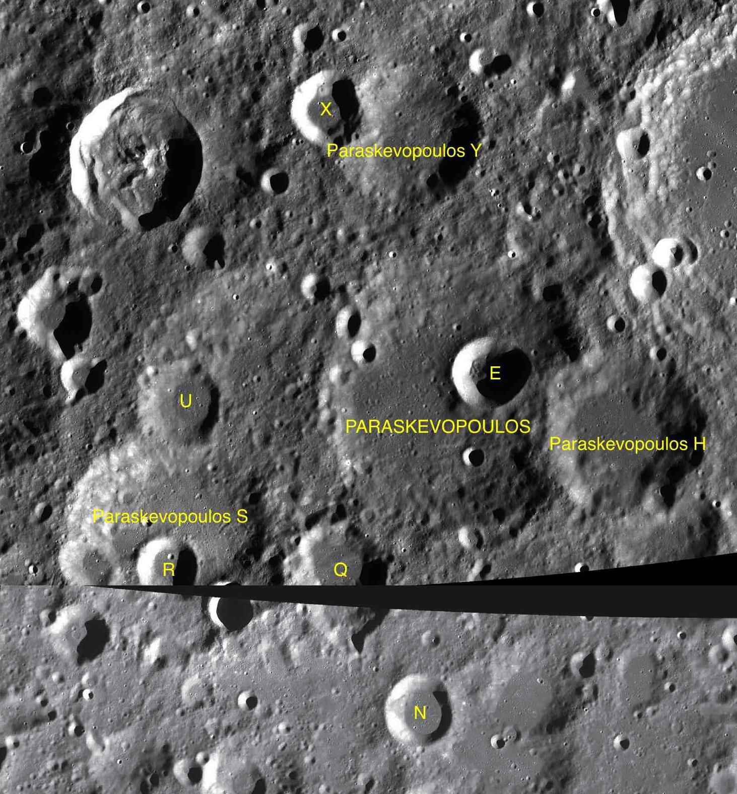 Parts of the charts LAC-19, LAC-34 used for the presentation